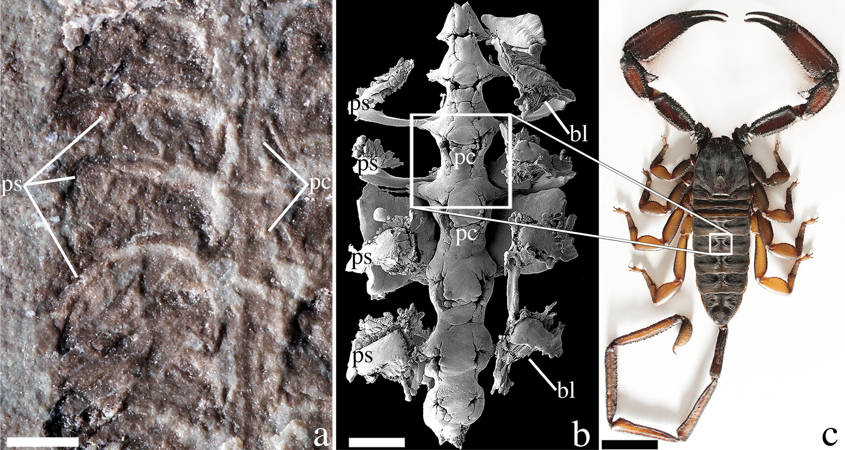 Medial structures associated with the pulmonary-cardiovascular system in Silurian (a) and Holocene (b,c) scorpions. (a) Parioscorpio venator gen. et sp. nov., holotype, detail of medial region showing pulmo-cardiovascular structures; (b) SEM of Centruroides exilicauda, corrosion cast of pericardium and associated pulmo-pericardial sinuses; (c) Hadogenes troglodytes, male, dorsal surface, showing medial structures externally reflecting the position of the internal pericardium (compare with B). Abbreviations: bl, book lungs; pc, pericardium; ps, pulmo-pericardial sinus. Scale bars equal 1 mm for (a,b); scale bar equals 1 cm for (c).